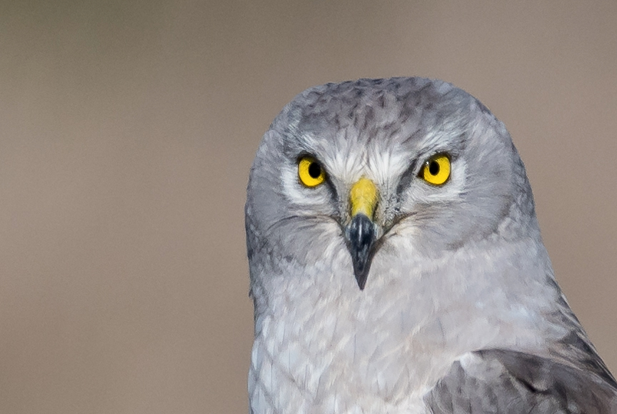 Male Northern Harrier (Circus hudsonius), Berkeley, USA.